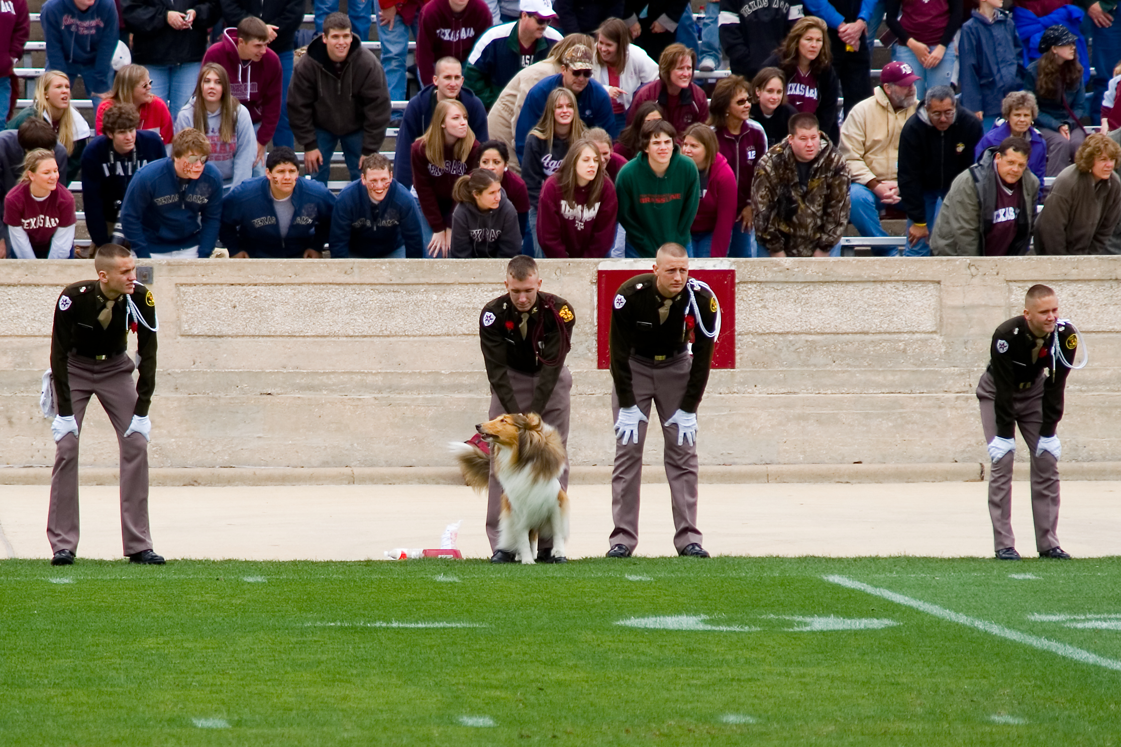 During the 2007 Maroon & White Football Game.